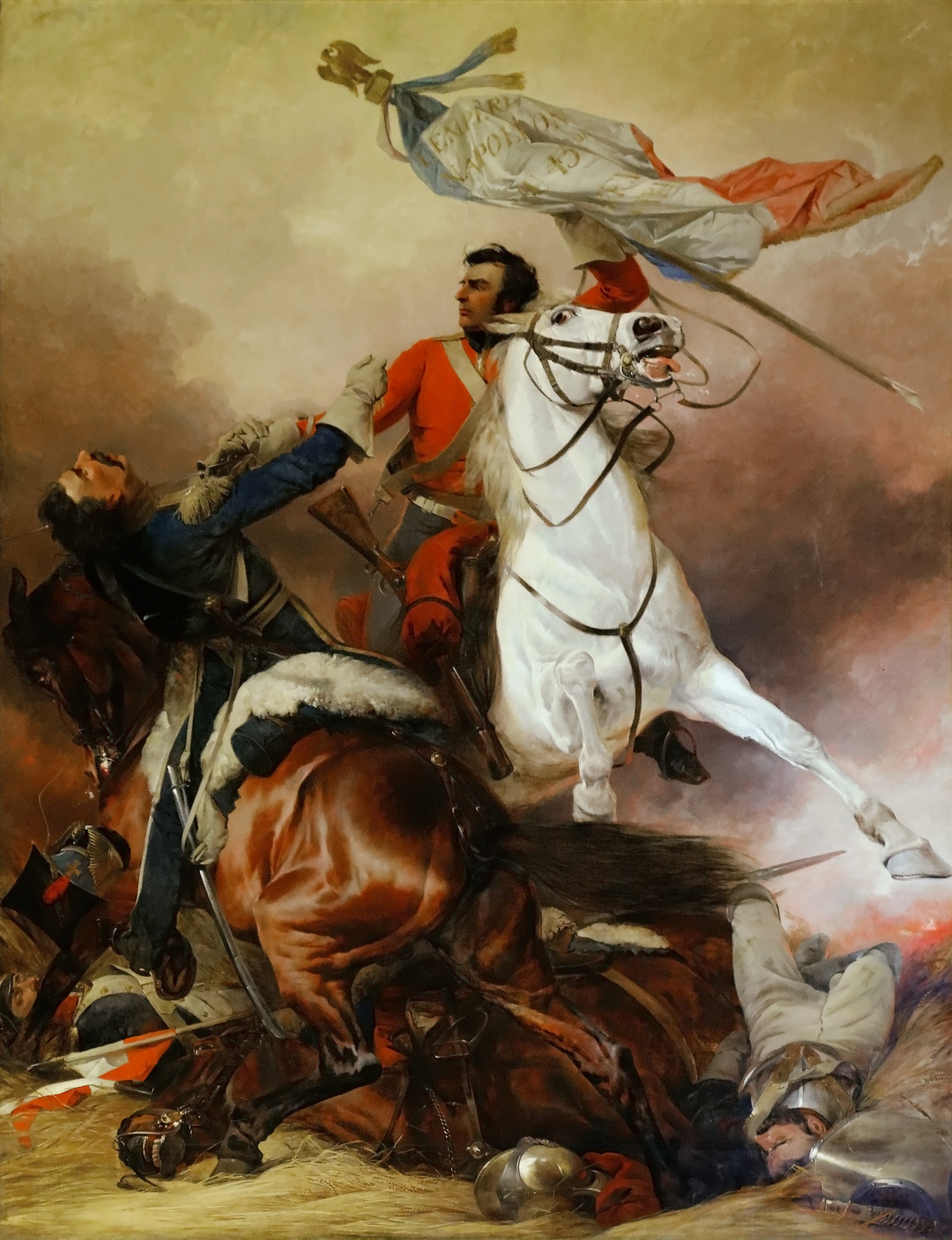 Royal North British Dragoons' Sergeant Charles Ewart defending the seized standard of the French 45th Regiment of the Line from a French lancer during the Battle of Waterloo, 18 June 1815.